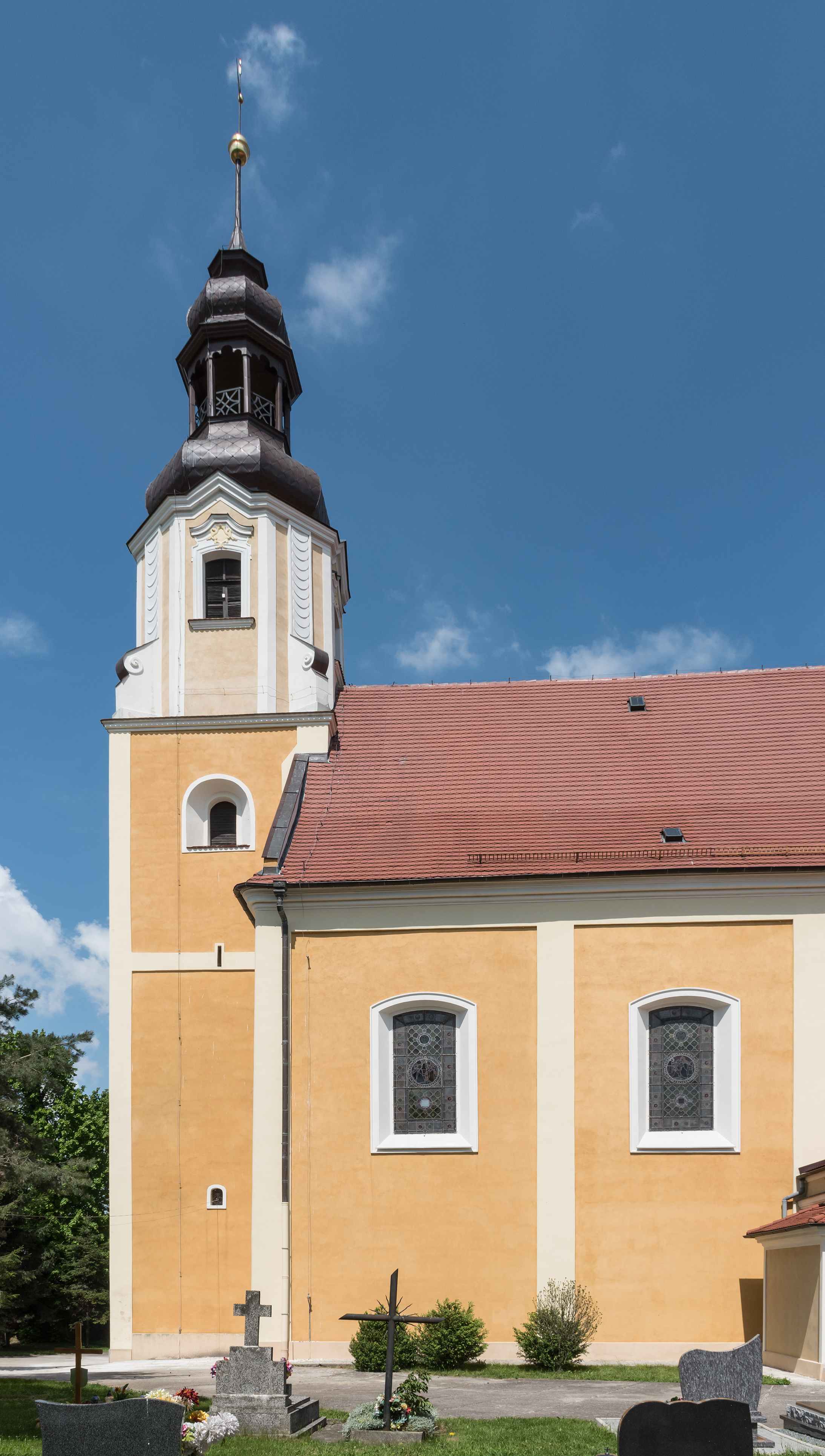 Saint Lawrence church in Braszowice